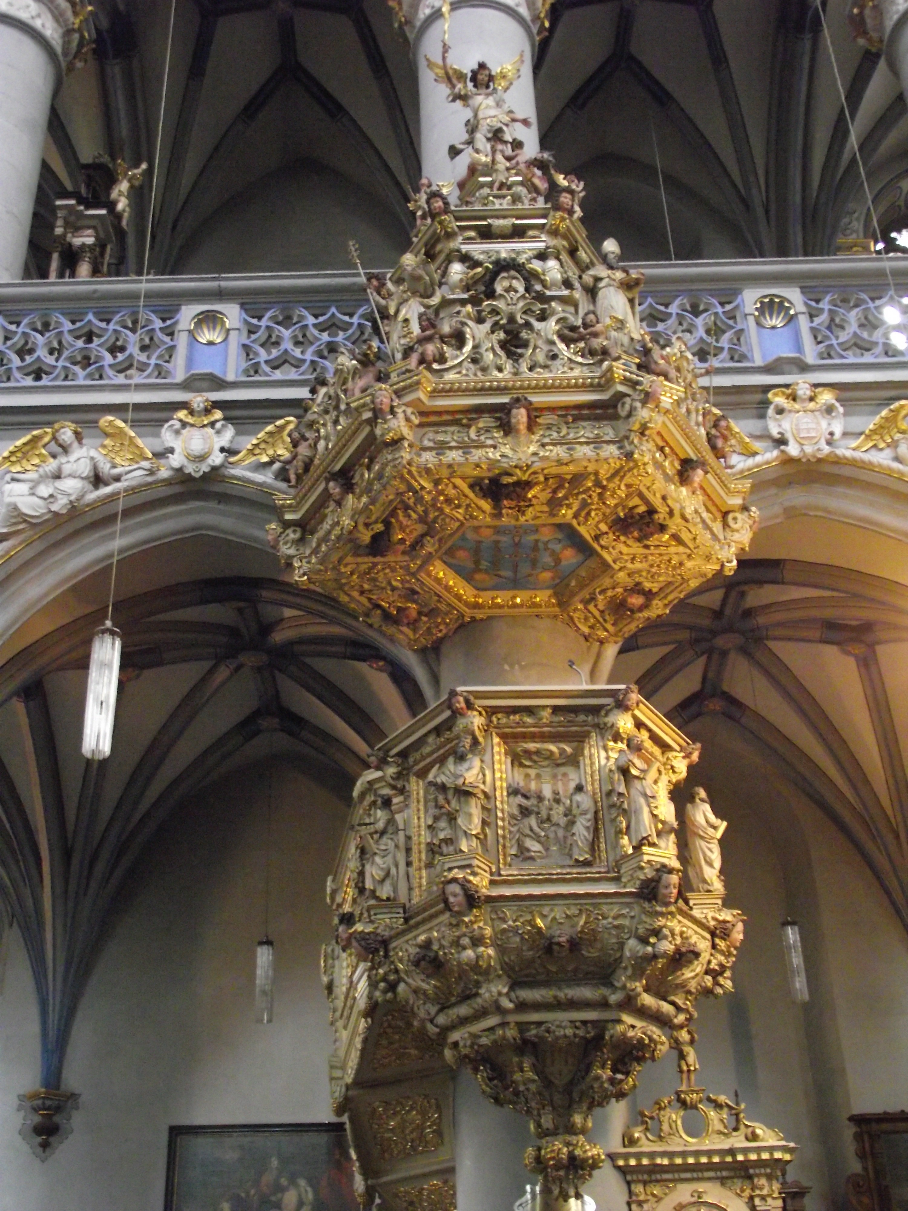 Cologne, St. Mariä Himmelfahrt, Pulpit, 1634.